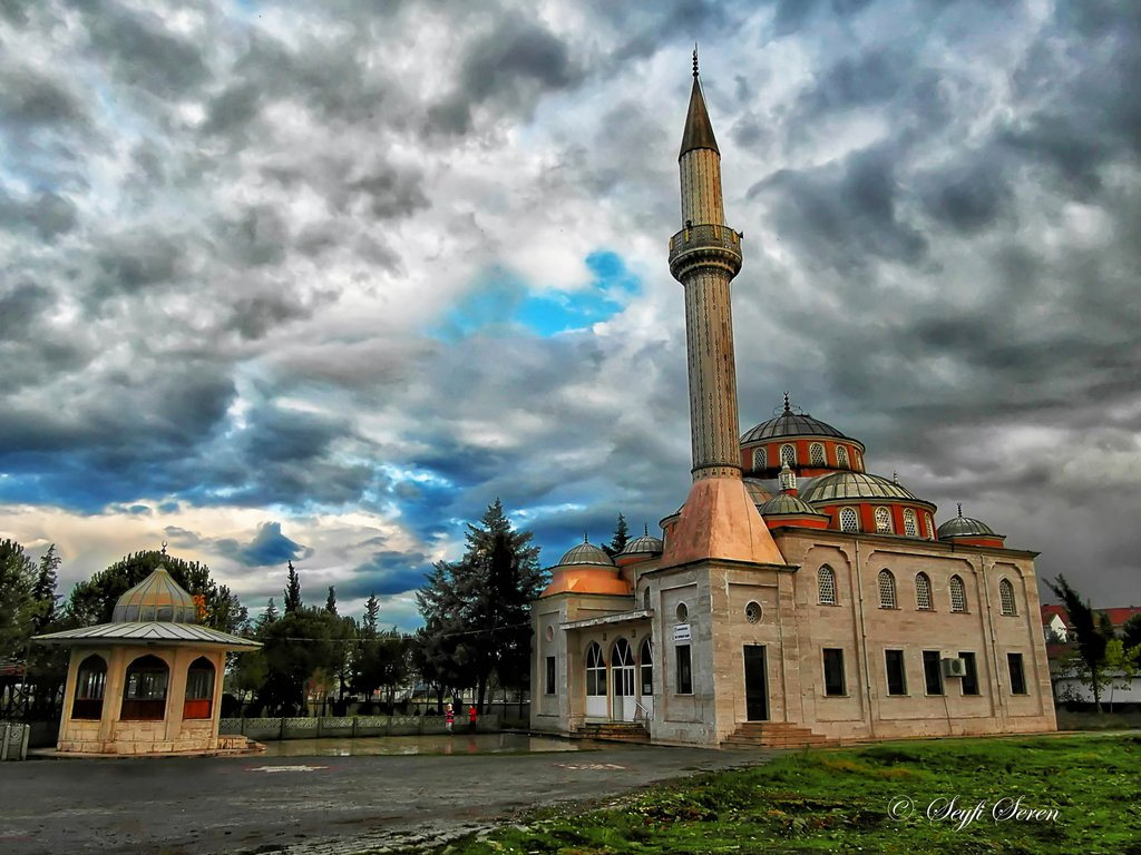 Manyas İmam Hatip Mosque